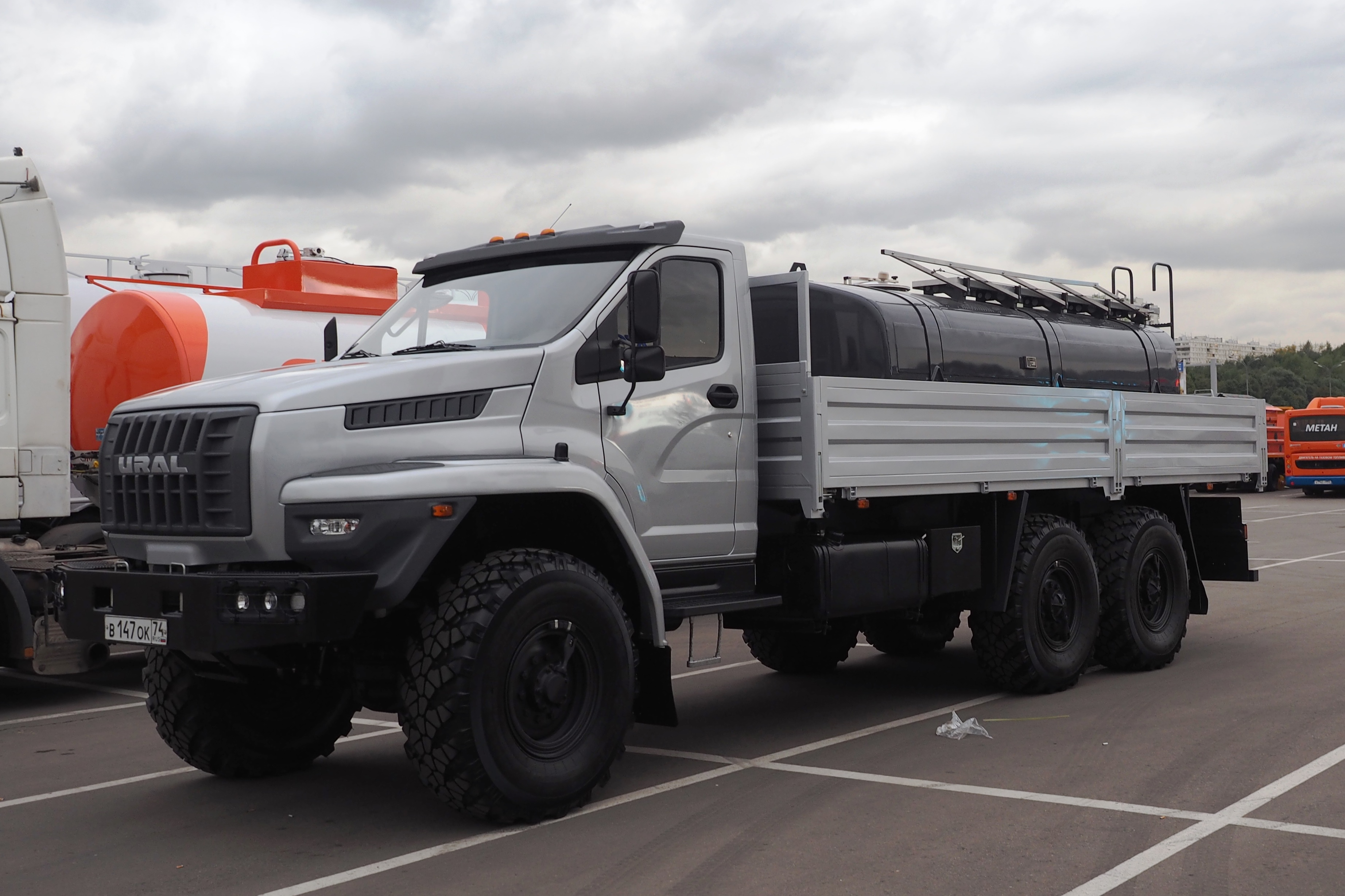 Ural Next flatbed truck